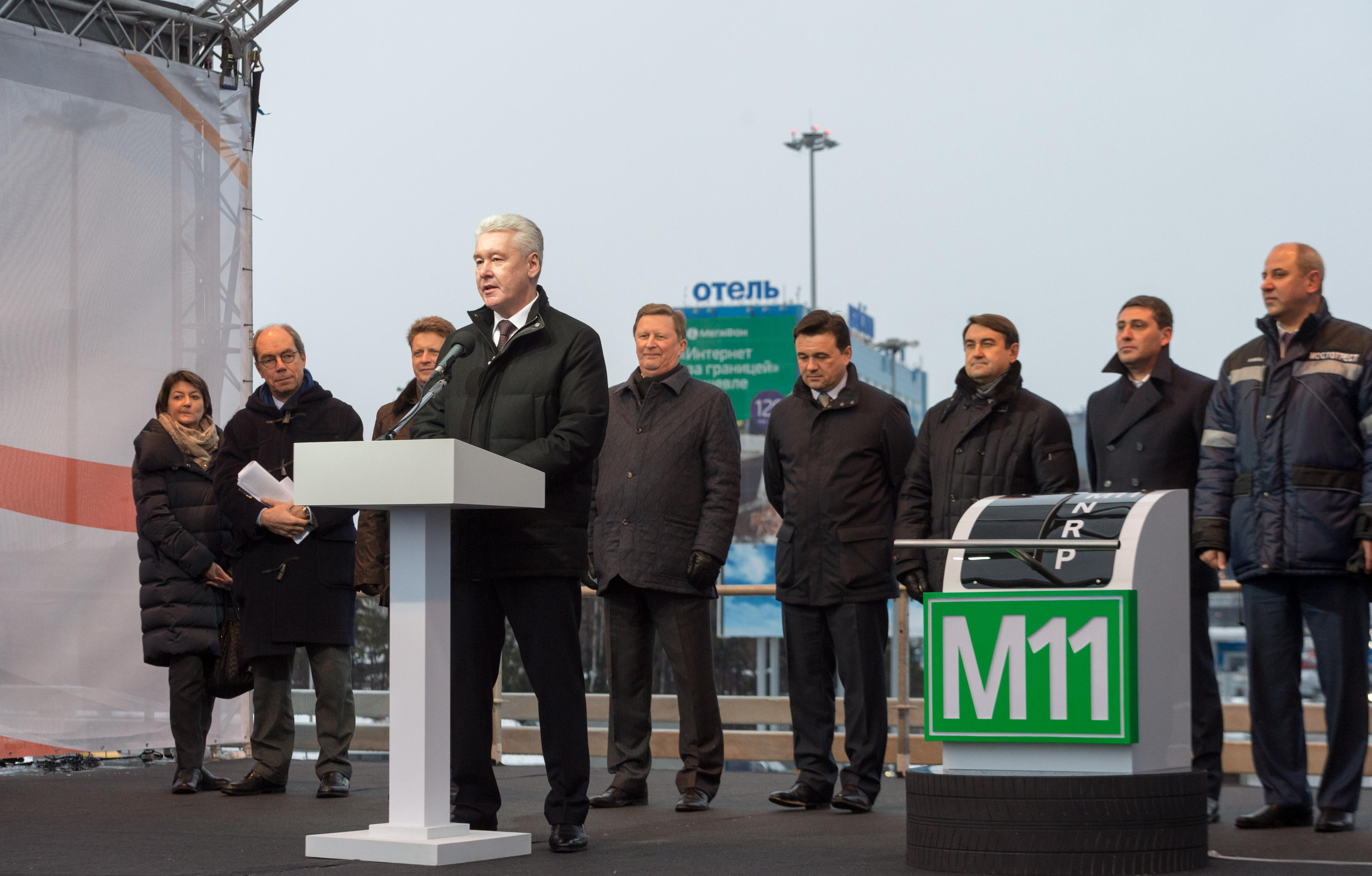 Opening Moscow–Saint Petersburg motorway (2014-12-23)